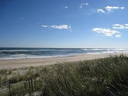 Beach On Dune Road, East Quogue, NY